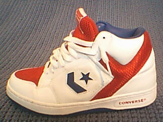 A pair of Converse Weapons brand basketball shoes